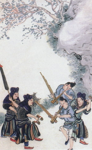 two Miao men are playing Lusheng, a typical Miao musical instrument, while three women are dancing with hand bells.